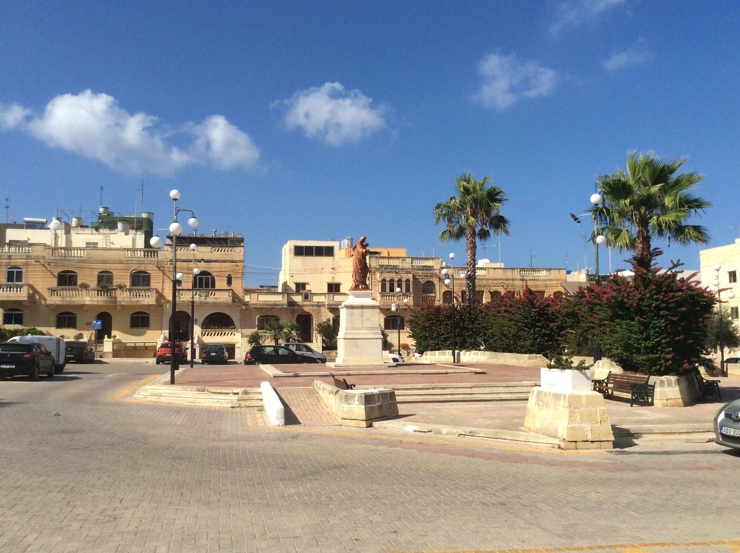 Buildings and structures in Fgura